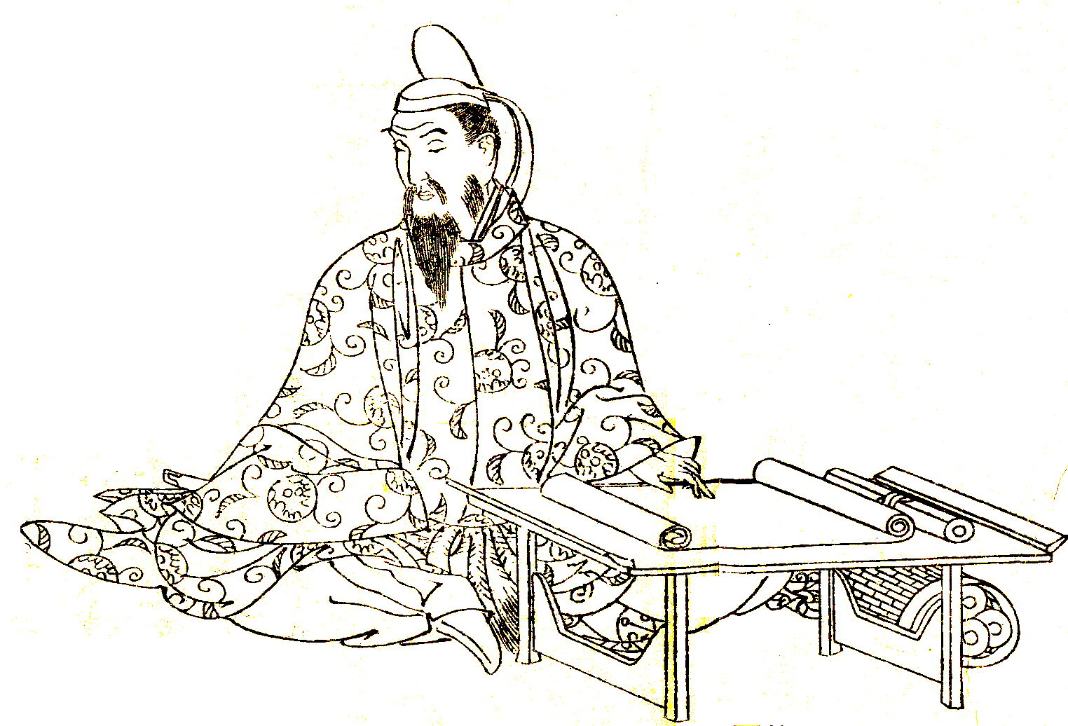 Fujiwara no Fuyutsugu (藤原冬嗣) was a Japanese politician and court noble in the early Heian periods.This picture was drawn by Kikuchi Yosai（菊池容斎） who was a painter in Japan.